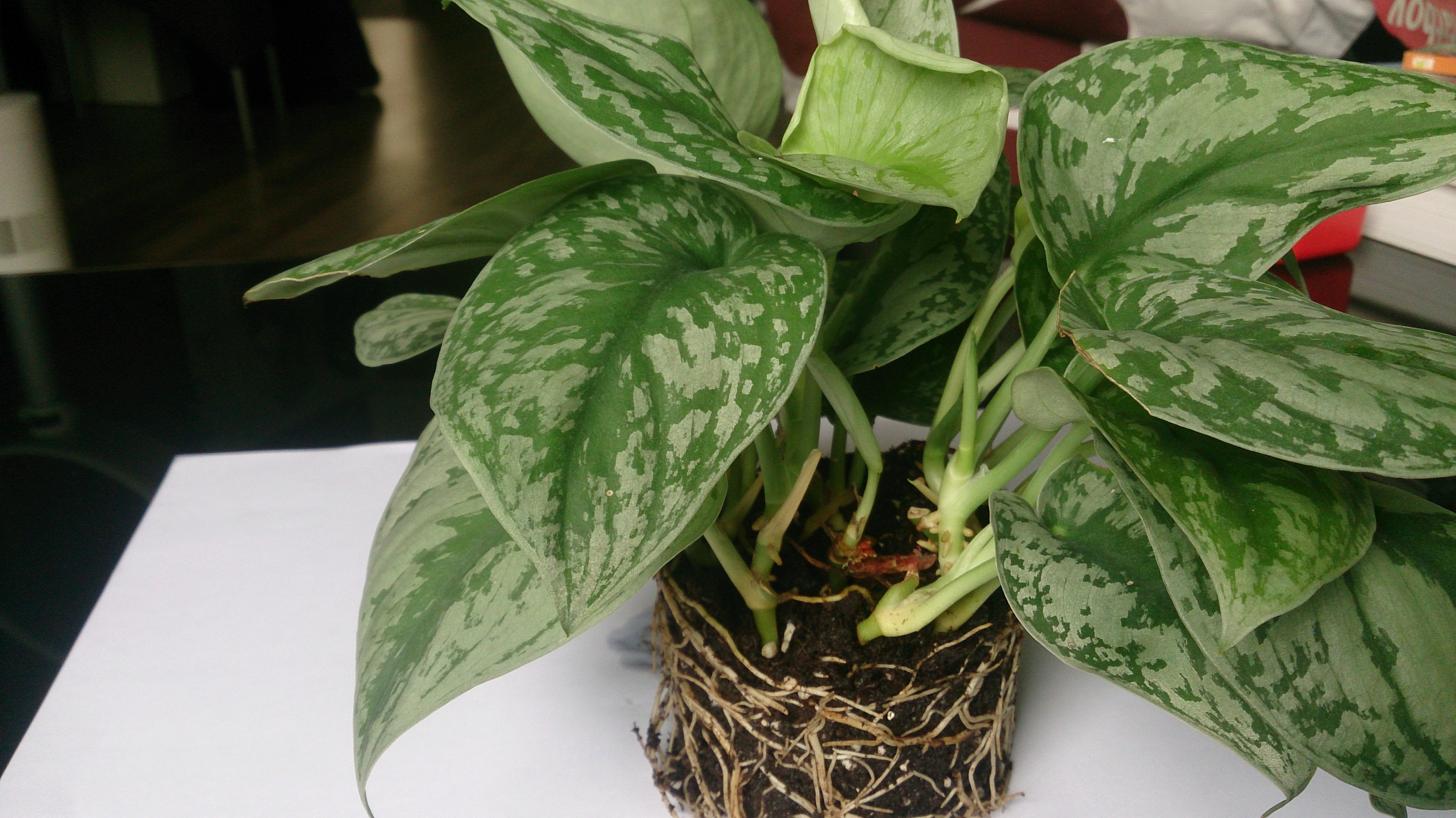 Scindapsus pictus. Common name: Silver Vine. Same family as the Epipremnum. Can be easily confused with the Epipremnum.